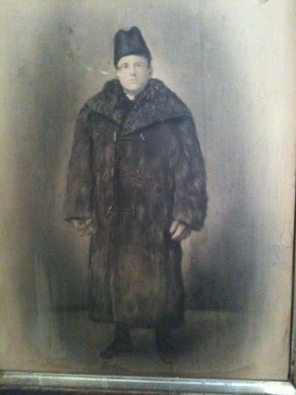 Canadian man wearing a fur coat and hat circa 1910